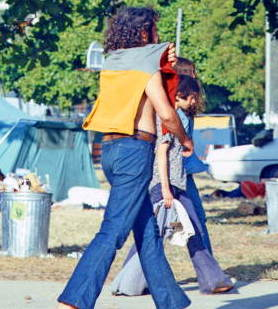 Jerry Rubin, activist at Flamingo Park during the 1972 Republican National Convention - Miami, Florida.